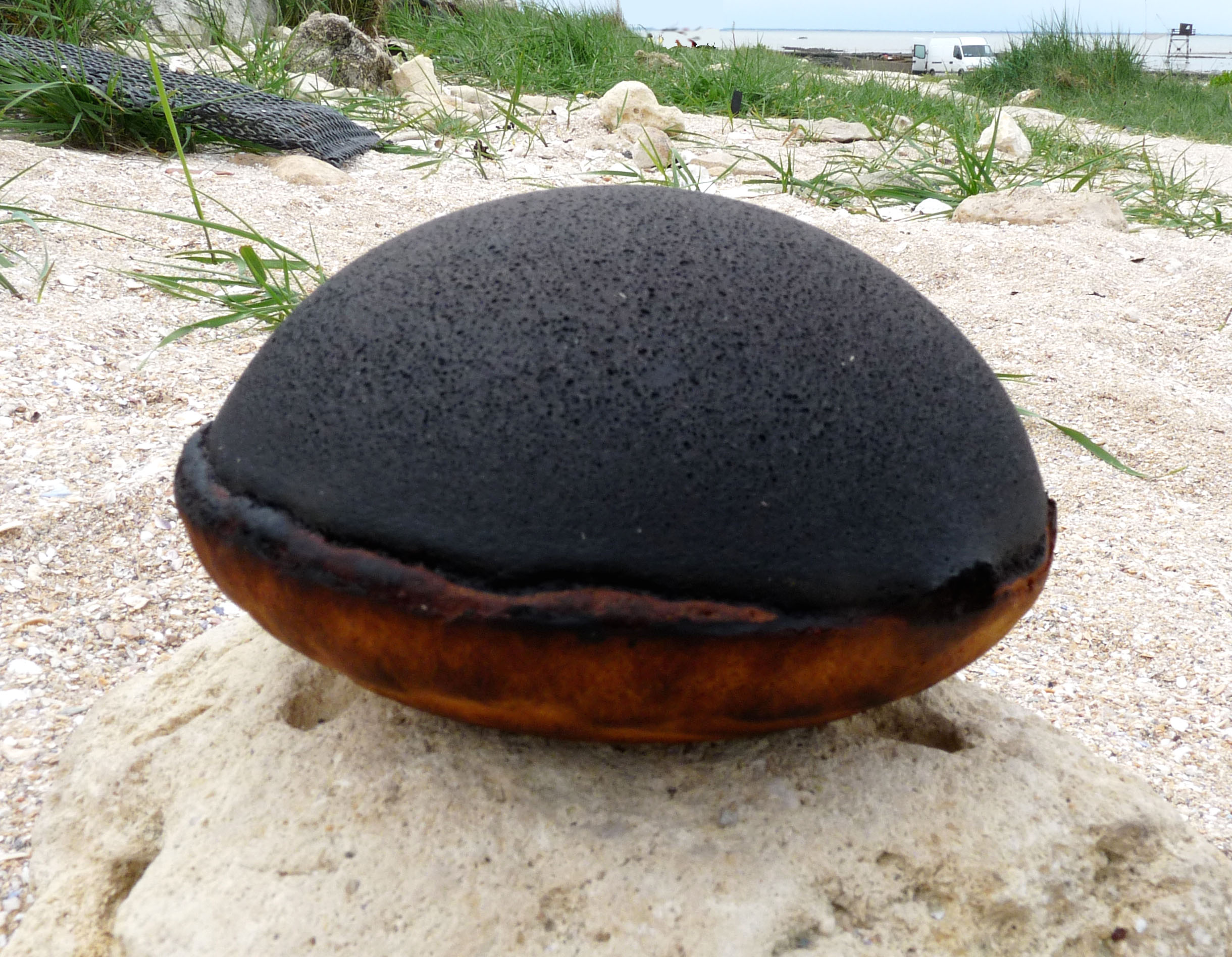 Tourteau fromager (typical cheese cake from Deux-Sèvres, France)